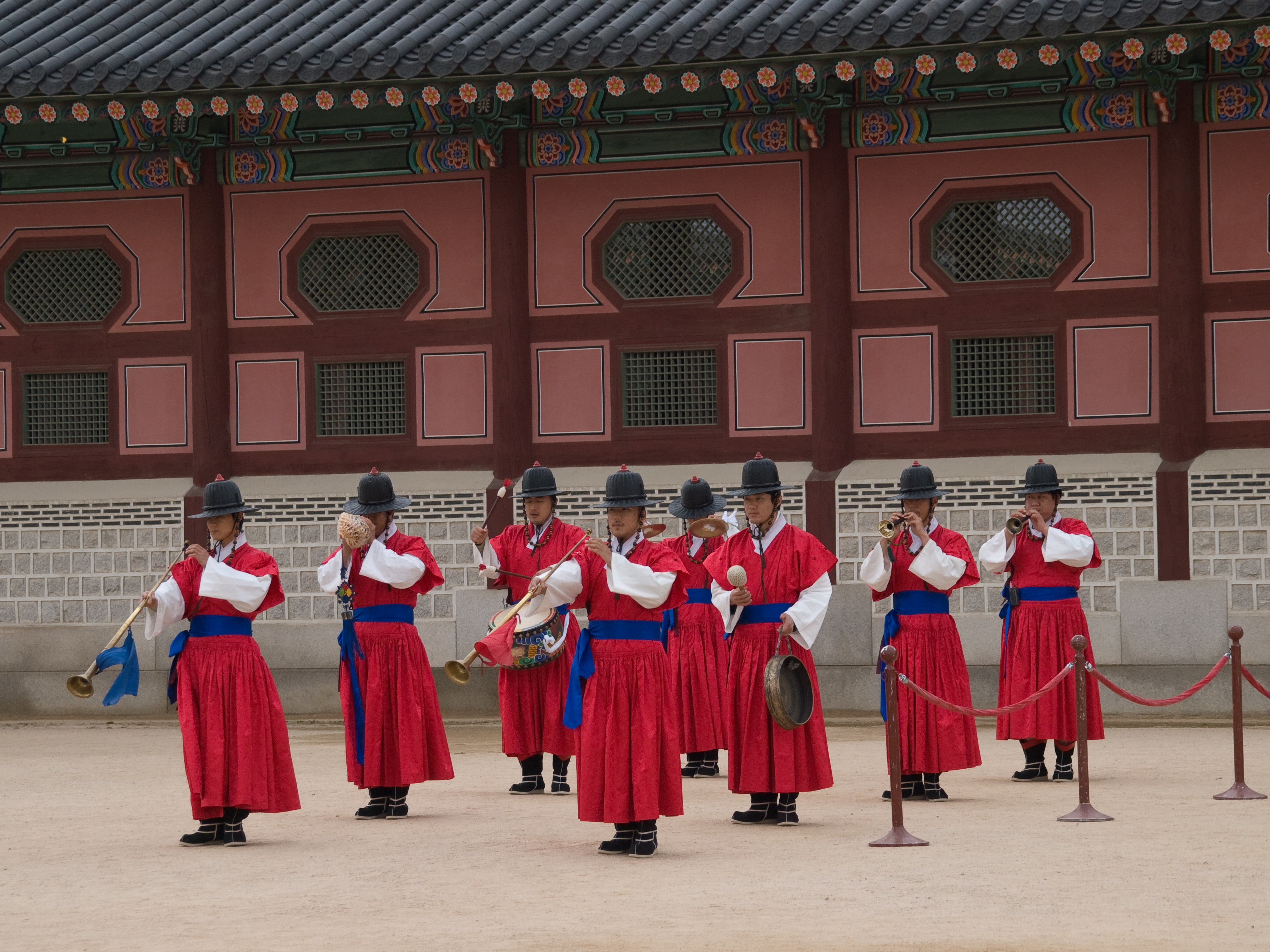 The changing of the guard ceremony at the Gyeongbokgung Palace.